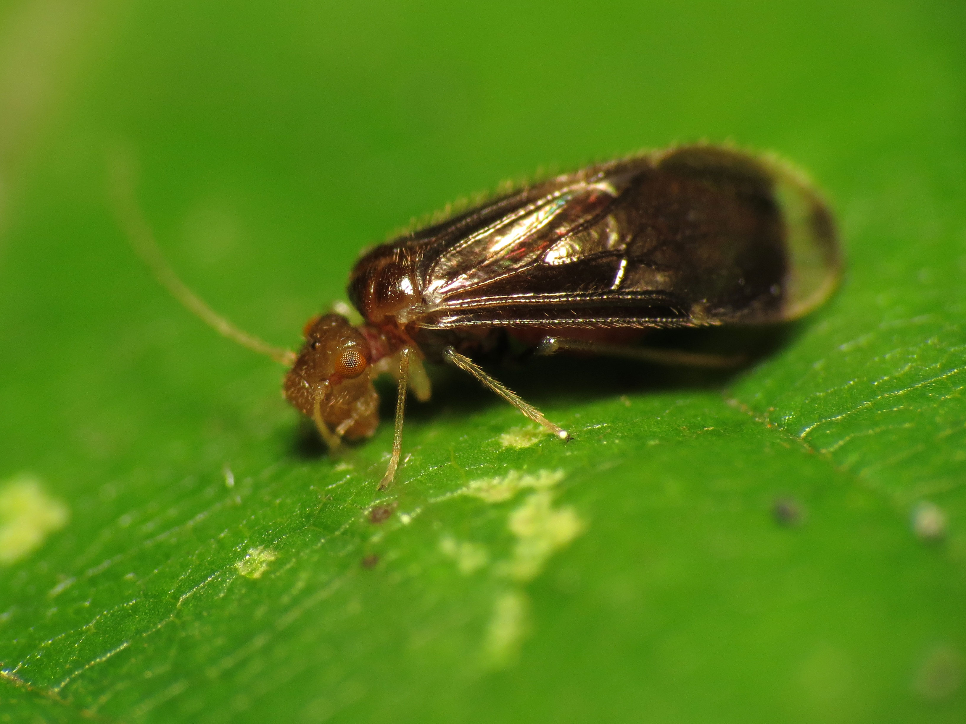 Polypsocus corruptus female. Rock Creek Park, Washington, DC, USA.